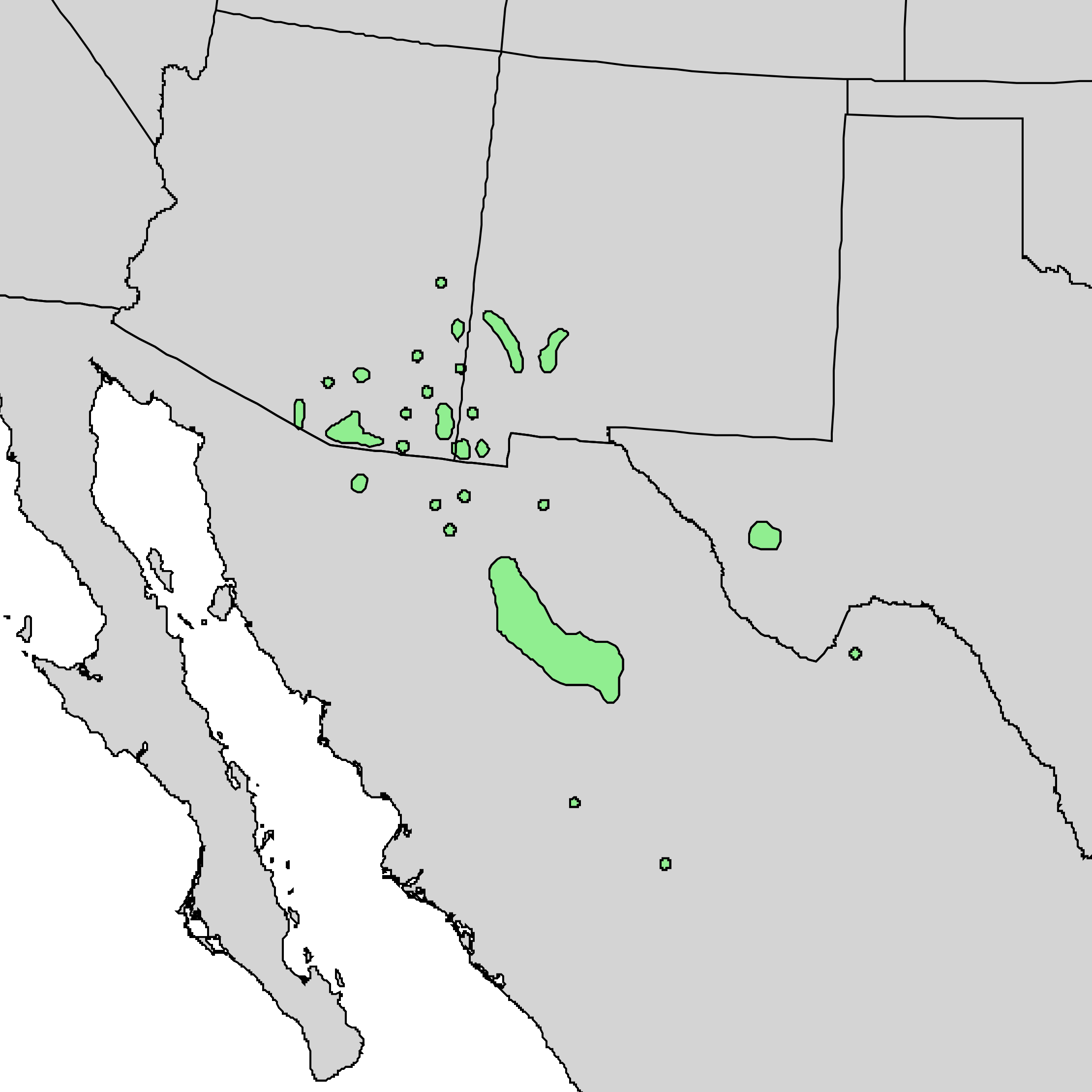 Natural distribution map for Quercus hypoleucoides